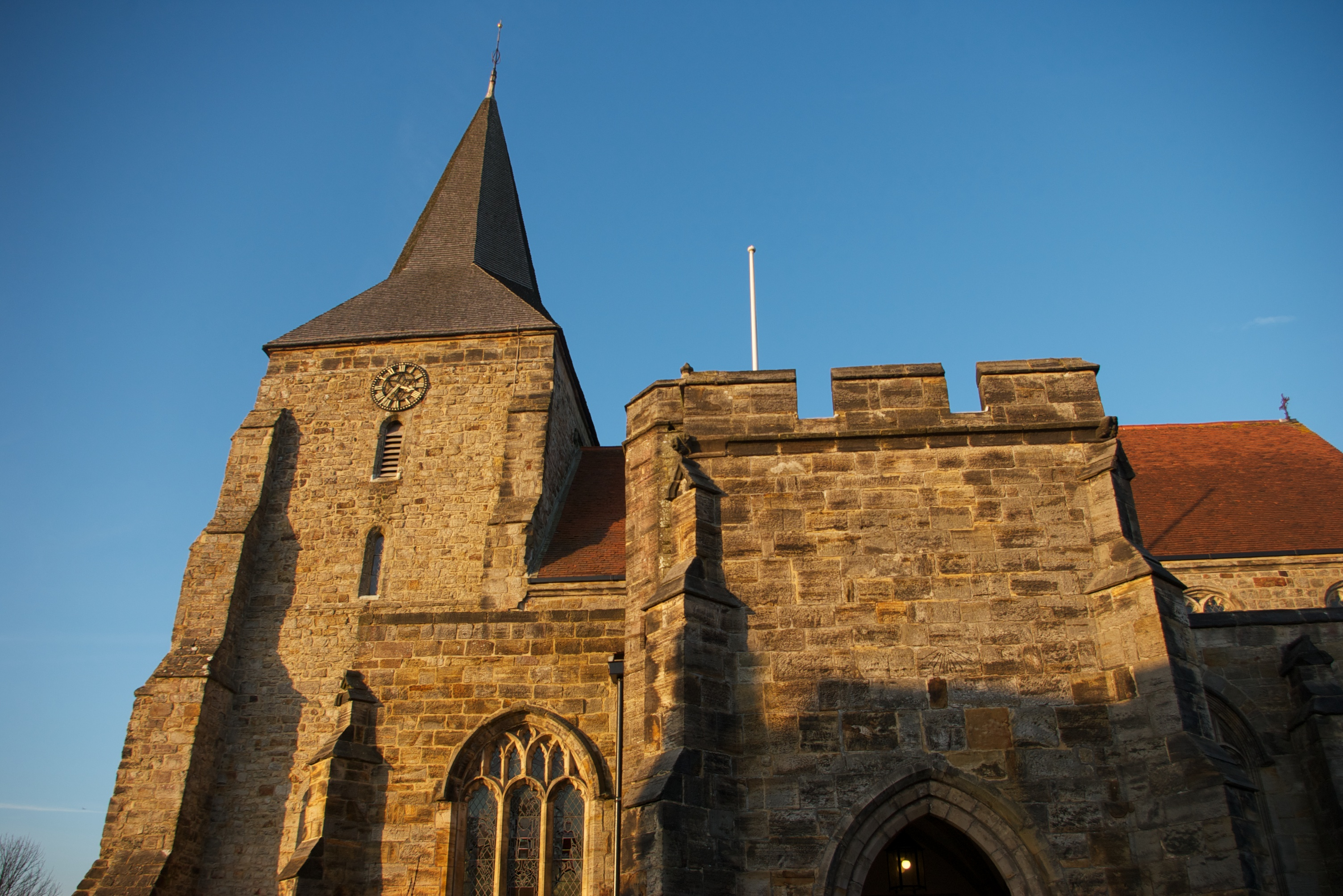 Another image of St. Dunstan's Church in Mayfield